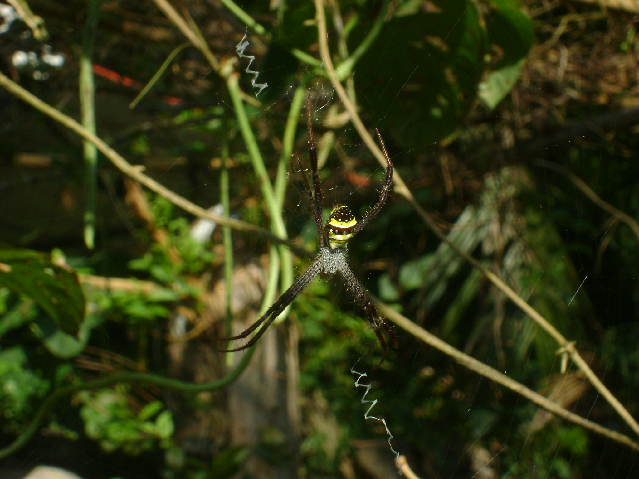 Argiope aurantia, a garden spider from kerala. It can control pests.